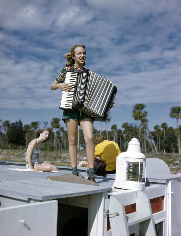 Local call number: JJS0512 Title: Lois Duncan Steinmetz playing the accordion aboard the shantyboat Lazy Bones Date: ca. 1947 General Note: The Steinmetz family on a trip upriver between Ft. Myers and Clewiston on the Caloosahatchee River. Physical descrip: 1 transparency - col. - 5 x 4 in. Series Title: Joseph Janney Steinmetz Collection Repository: State Library and Archives of Florida, 500 S. Bronough St., Tallahassee, FL 32399-0250 USA. Contact: 850.245.6700. Persistent URL